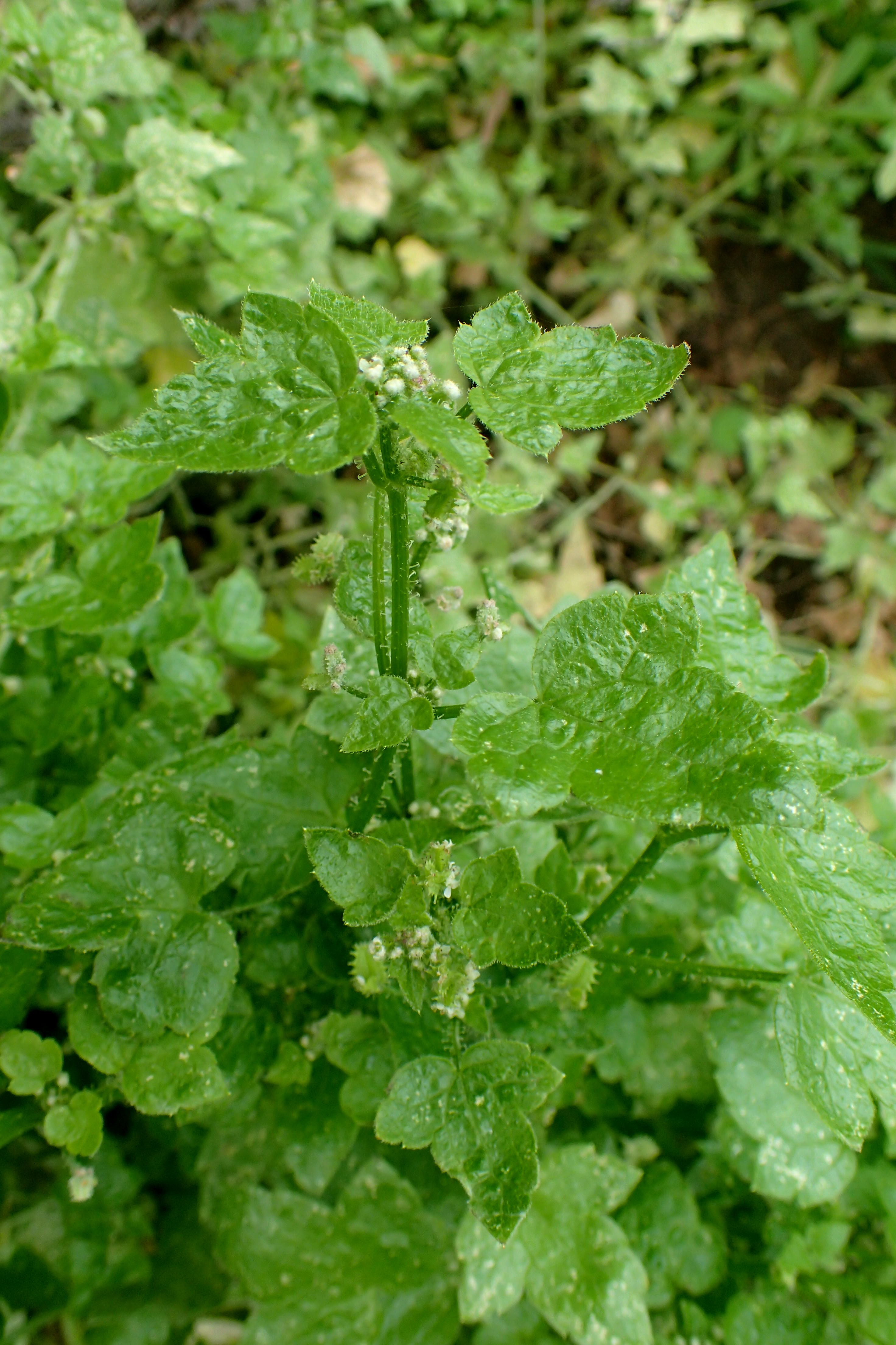 Drusa glandulosa in Los Carrizales, Tenerife, Canary Islands